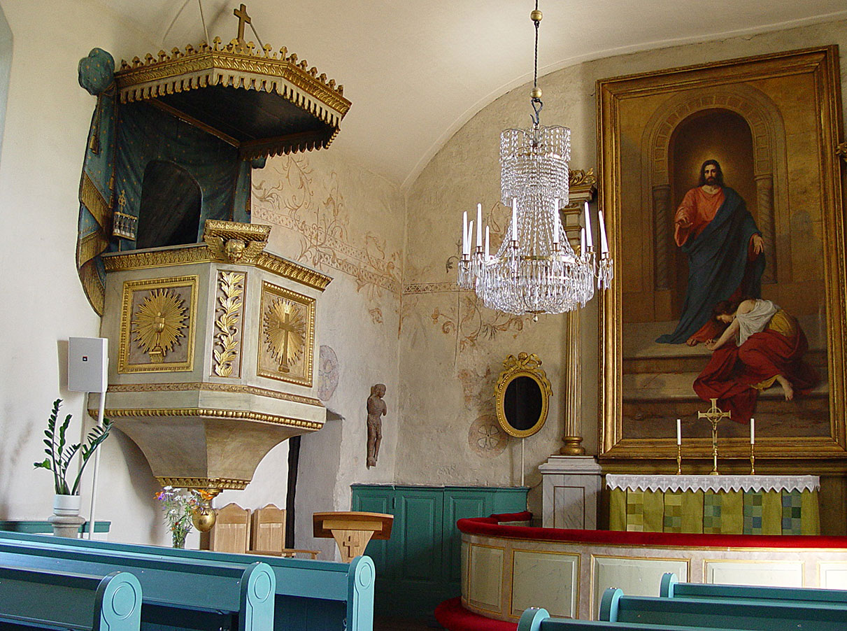 Interior of Eckerö Church in Eckerö, Åland, Finland. The pulpit was designed by Carl Ludvig Engel. The altar piece was painted by Bernhard Reinhold in 1876.